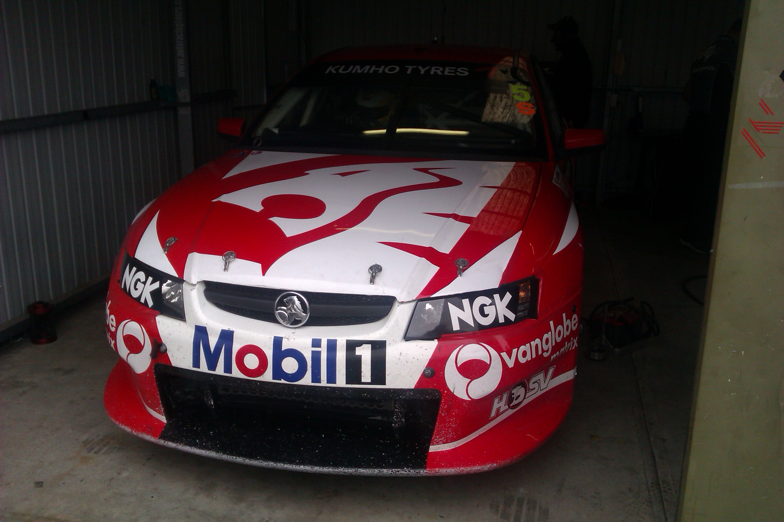 The Holden VZ Commodore of Matthew Hansen at Mallala Motor Sport Park on 21 April 2013. Hansen was contesting Round 2 of the 2013 Kumho Tyres V8 Touring Car Series.